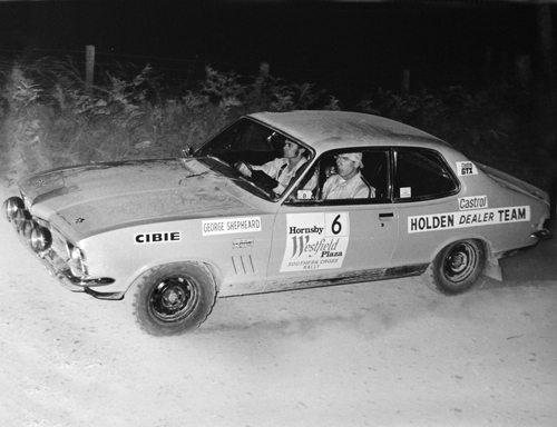 Colin Bond and George Shepheard in the HDT Torana XU-1 at the 1970 Southern Cross Rally - Photo by Graham Ruckert